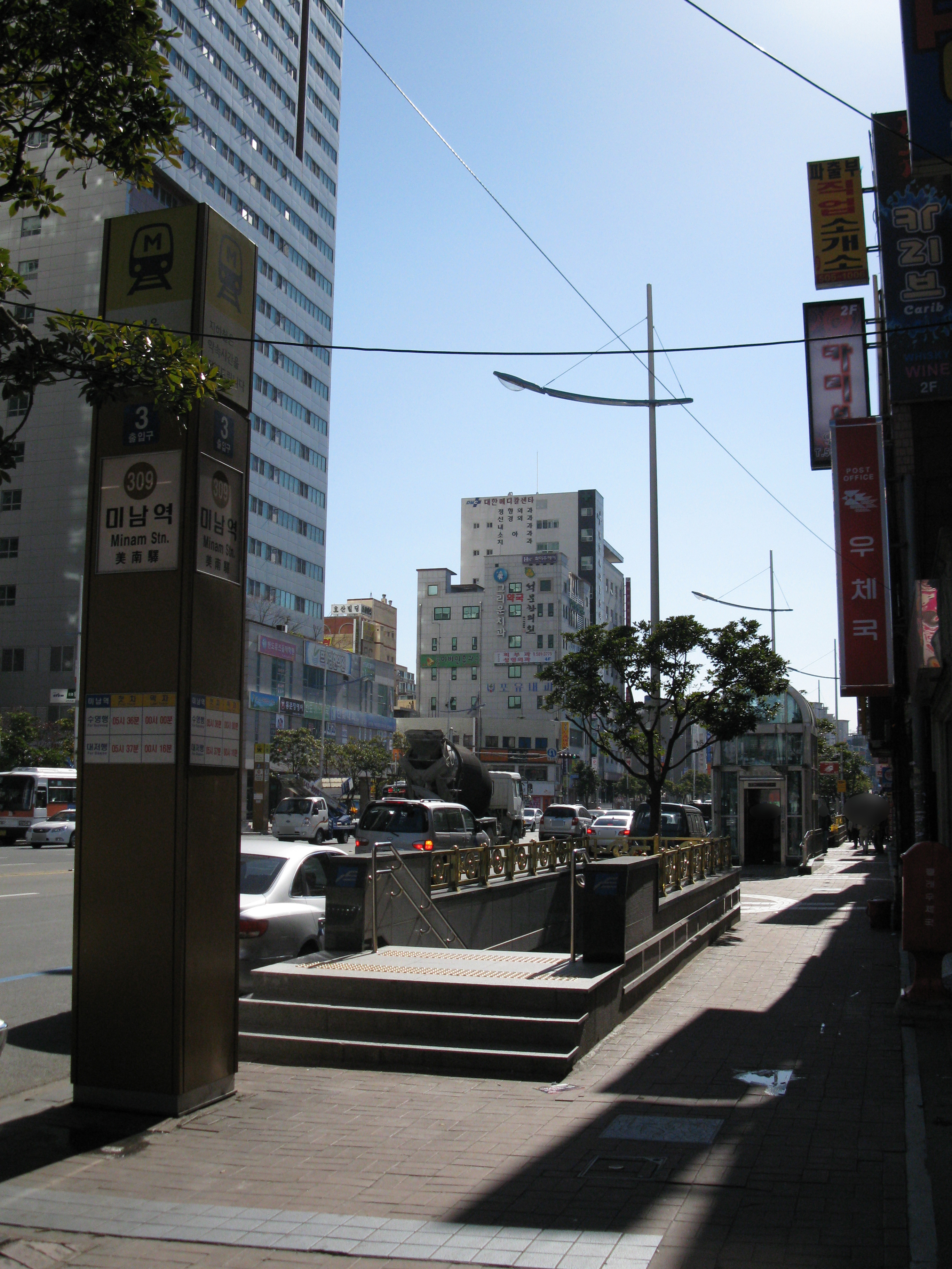 The no.3 entrance to Minam Station on the Busan Subway Line 3 in Dongnae-gu, Busan, Republic of Korea(South Korea)